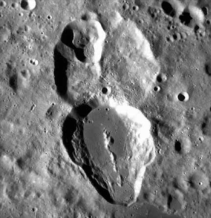 Buys-Ballot is the odd-looking crater at bottom in image, while the top crater is Buys-Ballot Z